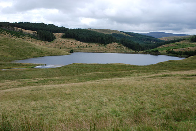 Llyn Nantycagl An artificial llyn created to supply water to the long defunct mines, it is now favoured by local anglers.